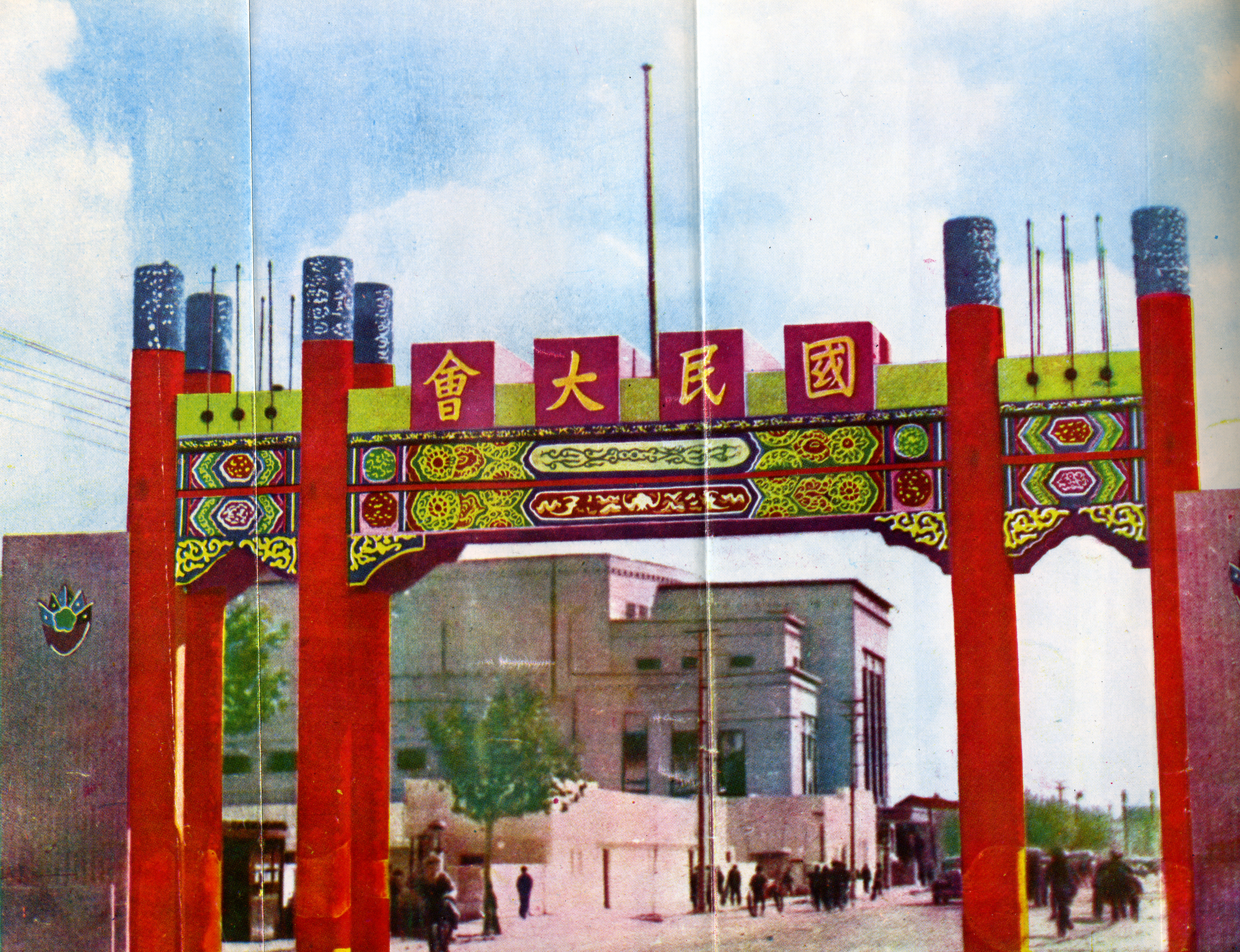 This picture has expired because of PD-Taiwan